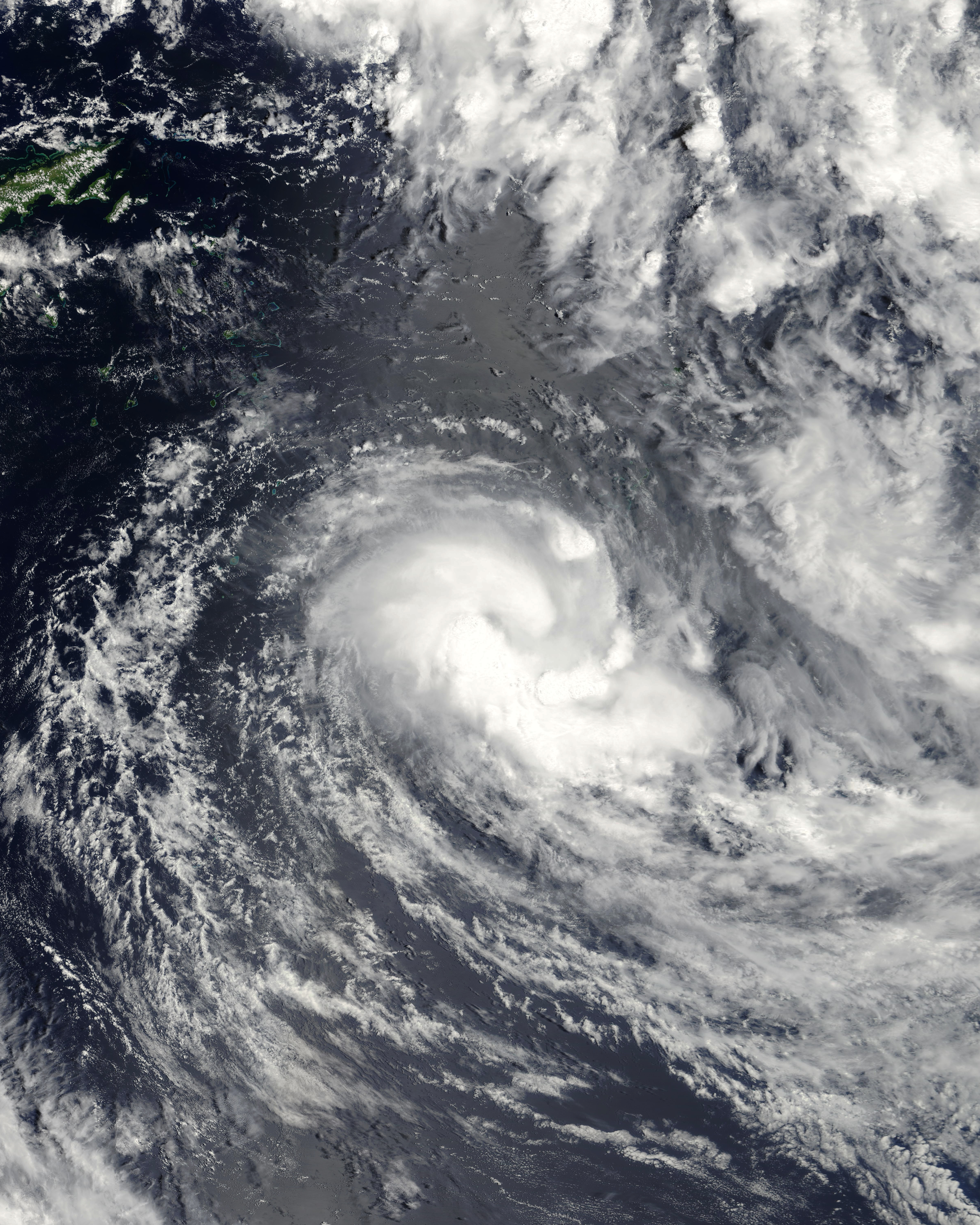 Tropical Cyclone Elisa, seen from MODIS on the Terra satellite at 2210Z January 09.